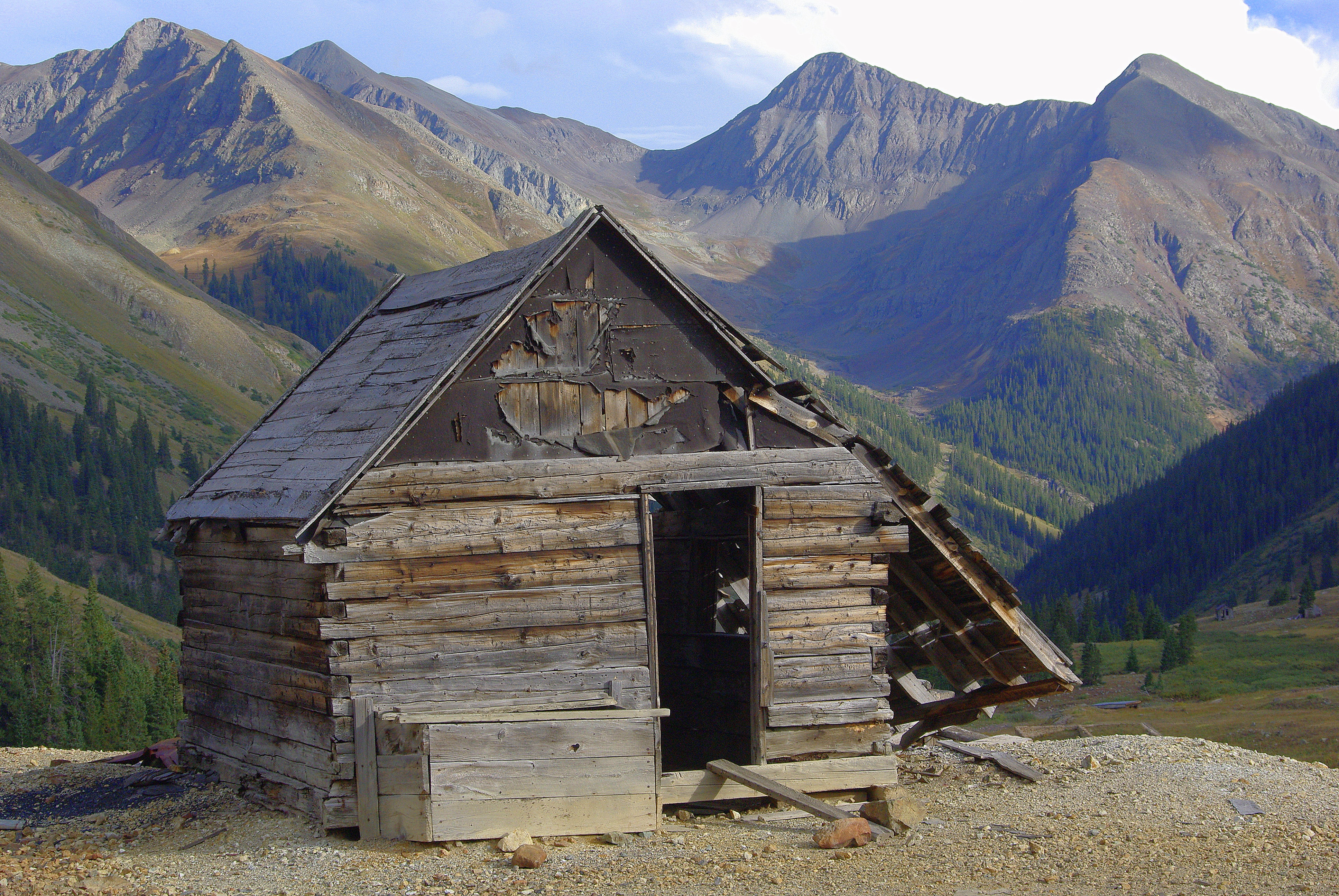 Animas Forks shack, 2009 |Used here